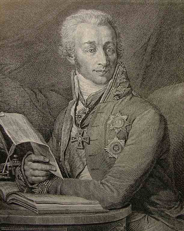 Golubzov Feodor Alexandrovitsch (1758-1829). Ministr of Russia (1807 — 1810).